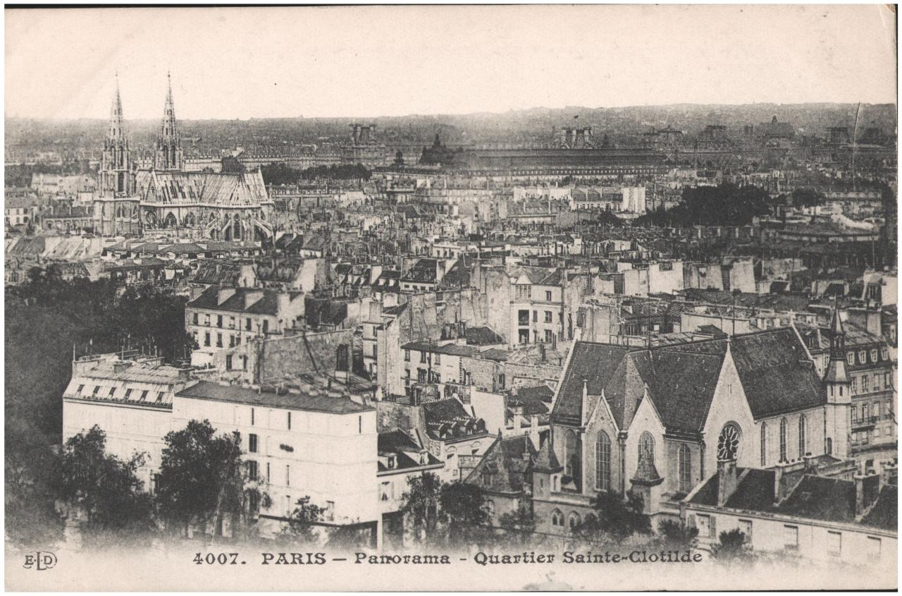 For more details of the story behind this album